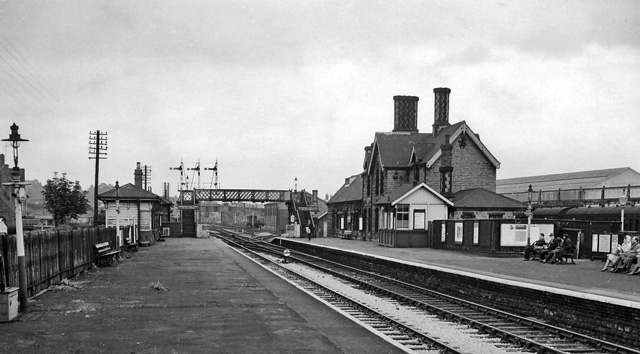 Basford North (former Basford & Bulwell) Station View eastward, towards Nottingham (Victoria), Colwick etc. and Grantham. Basford & Bulwell station only became 'Basford North' on 21/9/53; it was closed on 7/9/64 to passengers, along with the service from Derby (Friargate) etc. (goods 4/9/67). Beyond the station can be seen Park Lane Bridge, beyond which was the bridge carrying the main ex-Great Central line from Sheffield (Victoria) to Nottingham and the South. Trains through this station to/from Nottingham Victoria joined the main line at Bagthorpe Junction by connections either side of this bridge. A curve to the left just beyond the end of the Up (left) platform connected at Bulwell South Junction with the main line towards Sheffield. The lines straight ahead led to Leen Valley Junction and by the Daybrook Loop ('Back Line') round the north side of Nottingham to the great Colwick Yards and the main line to Grantham; the Back Line lost its meagre passenger services after the partial collapse of Mapperley Tunnel on 4/4/60, although Goods continued until 1/6/64. The GC main line effectively ceased as a through route on 5/9/66 and Nottingham Victoria closed on 5/7/67.